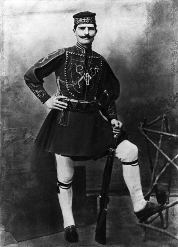 Greek revolutionary (makedonomahos, andart) Georgios Dikonimos in Macedonia